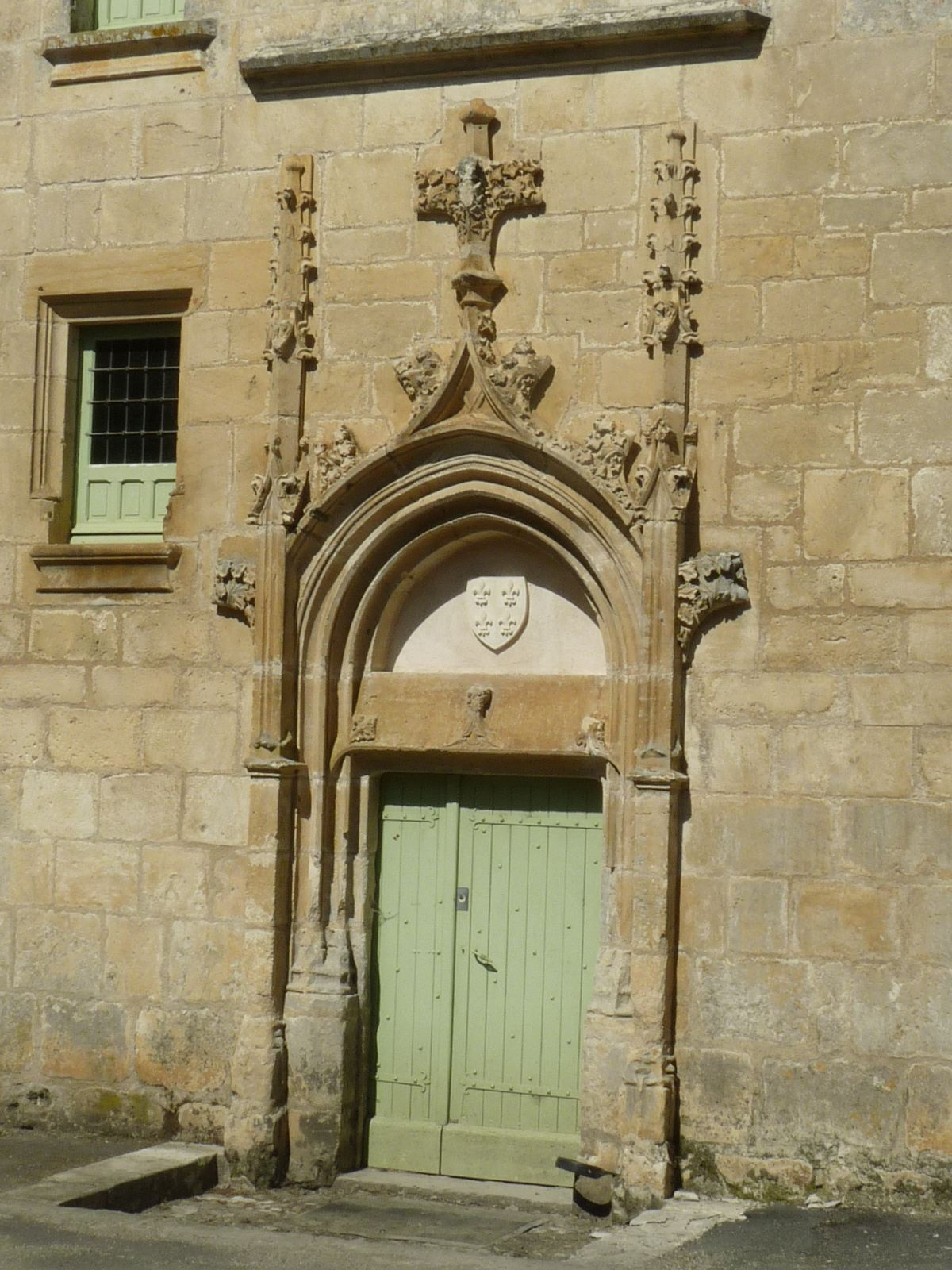 castle of St-Amant-de-Bonnieure, Charente, SW France